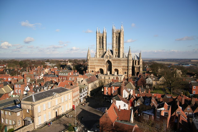 Cathedral & Castle Square. Looking across Castle Square and Exchequergate to the west front of the Cathedral from the top of the Castle Observatory Tower. Bardney Sugar Factory can be seen on the horizon, to the right of the cathedral - over 10 miles away !